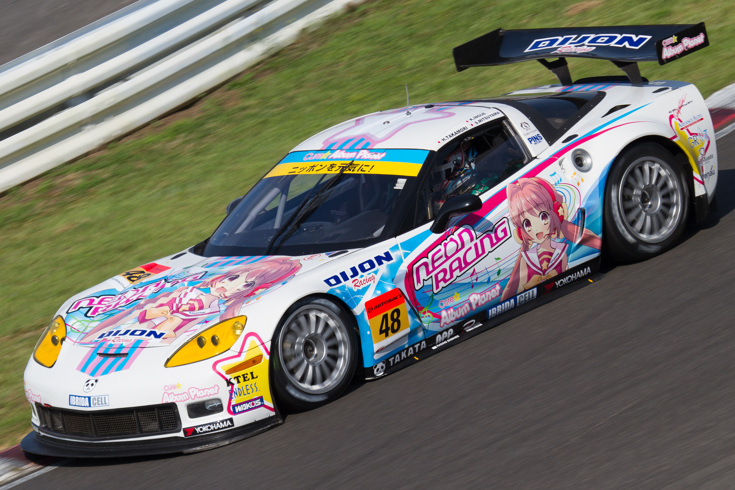 Super GT 2012 Rd.4 SUGO GT 300km: Shogo Mitsuyama (Dijon Racing) driving the Chevrolet Corvette Z06-R GT3.